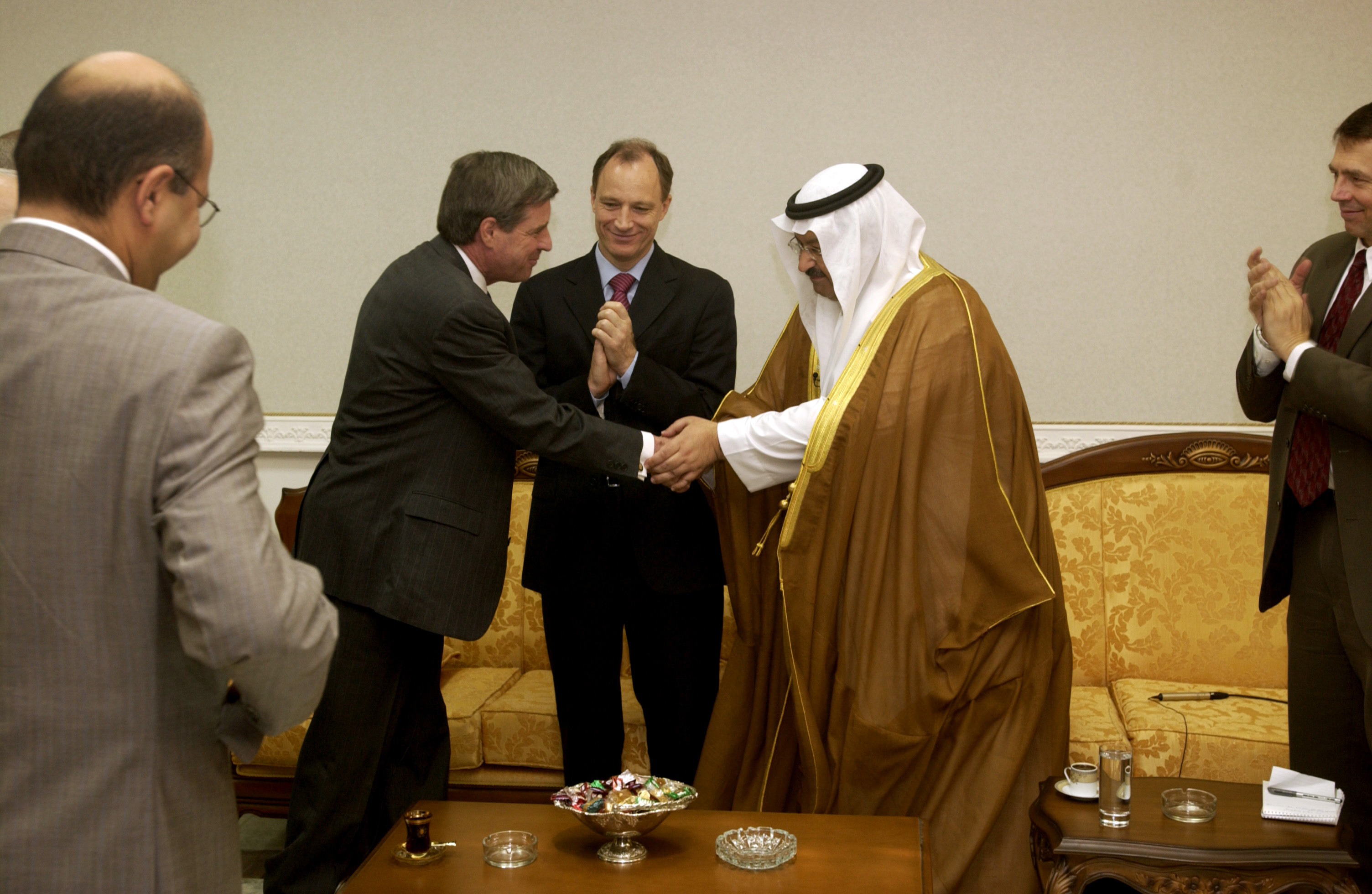 Baghdad, Iraq (June 28, 2004) - Ambassador L. Paul Bremer and Iraqi President Sheikh Ghazi Ajil al-Yawar shake hands while United Kingdom Special Representative David Richmond and others look-on during a ceremony celebrating the transfer of full governmental authority to the Iraqi Interim Government in Baghdad, Iraq. U.S. Air Force photo by Staff Sgt. D. Myles Cullen (RELEASED)